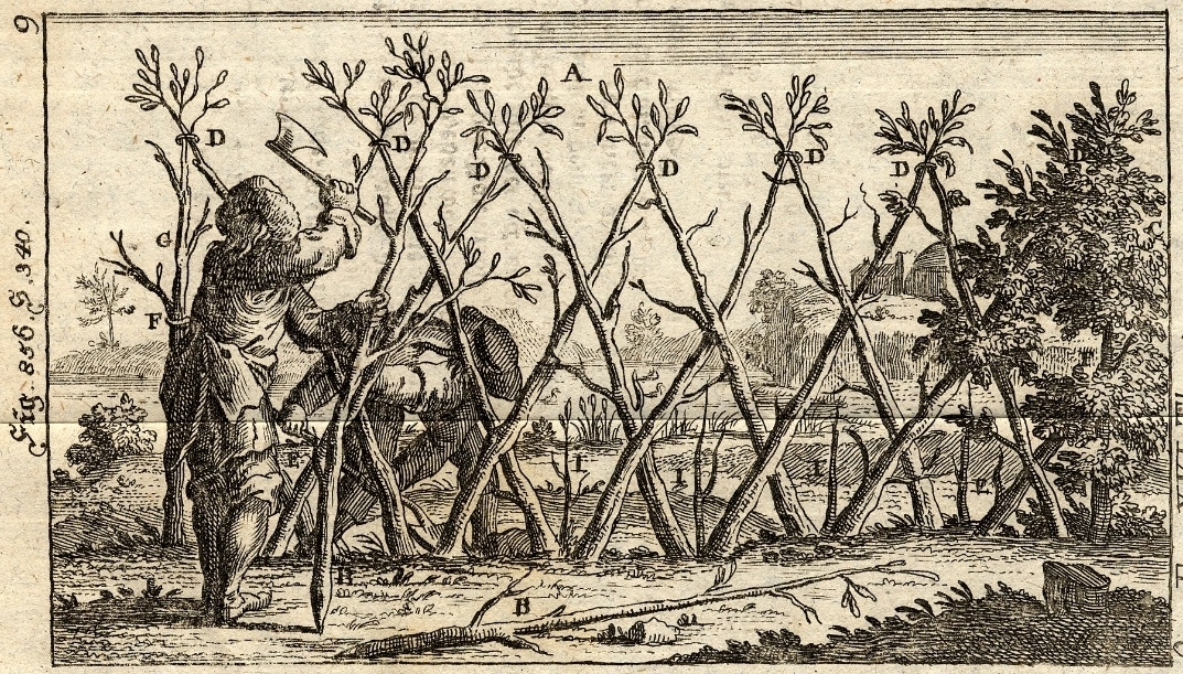 Living fence after Johann Georg Krünitz: Oeconomische Encyclopädie, vol.16, Berlin 1779 (Figure 856)